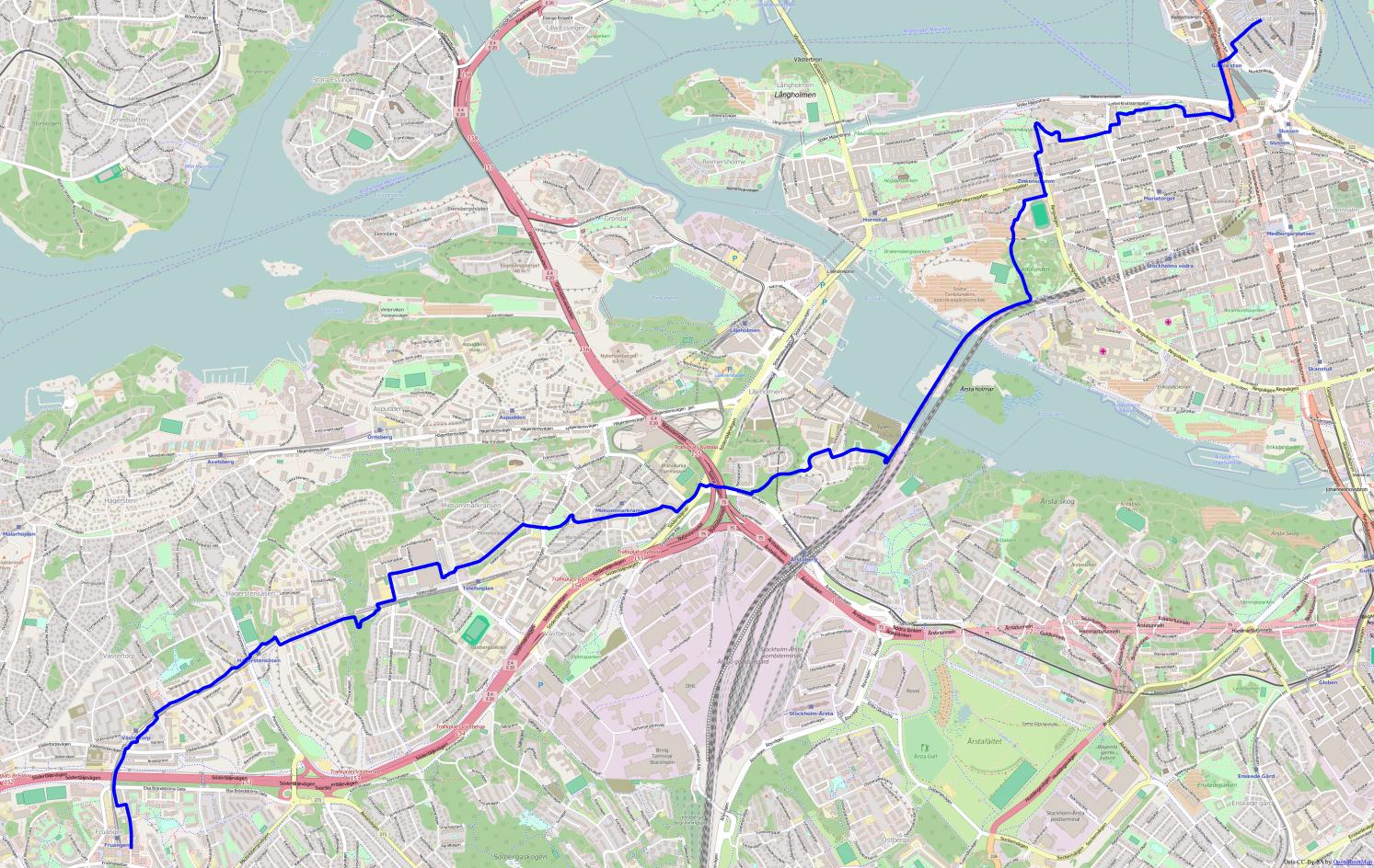 The Fruängenstråket hiking trail in Stockholm, Sweden.